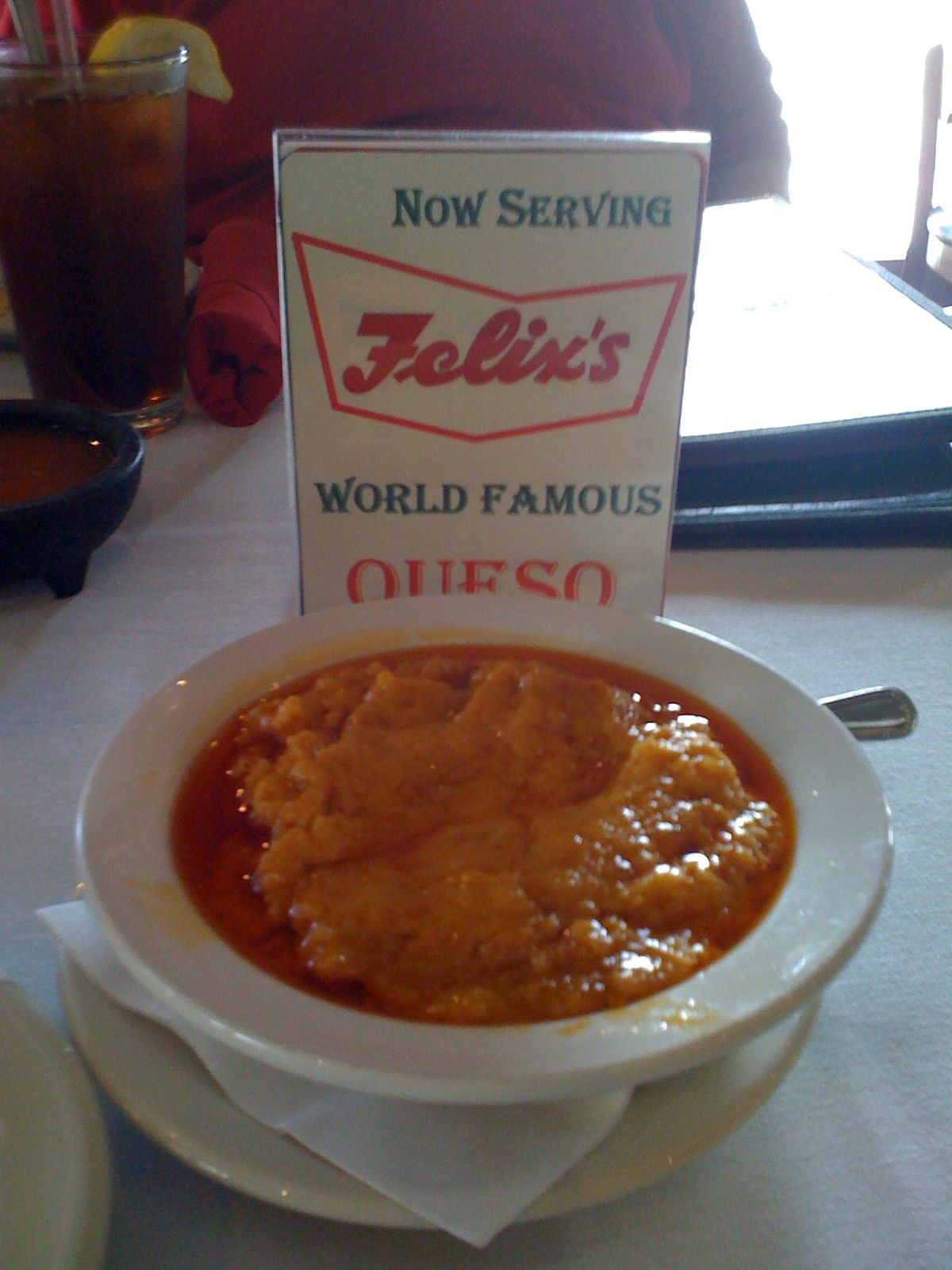 Felix-style chile con queso as served by the El Patio Mexican Restaurant at 2416 Brazos in the Midtown district of Houston, Texas, USA. Felix Mexican Restaurants were a Tex-Mex institution named after their founder, Felix Tijerina. The first restaurant opened in 1937, expanding to six restaurants at its peak. After the closure of the final restaurant in 2008, Scott Sullivan, an owner of the El Patio Mexican Restaurant chain, reached an agreement with Felix Tijerina Jr. to license Felix's name and recipes, which led to Felix's chile con queso becoming a permanent addition to El Patio's menu. Felix's Queso Makes a Comeback Felix Mexican Restaurant Closes After 60 Years in Business Felix Mexican Restaurant.